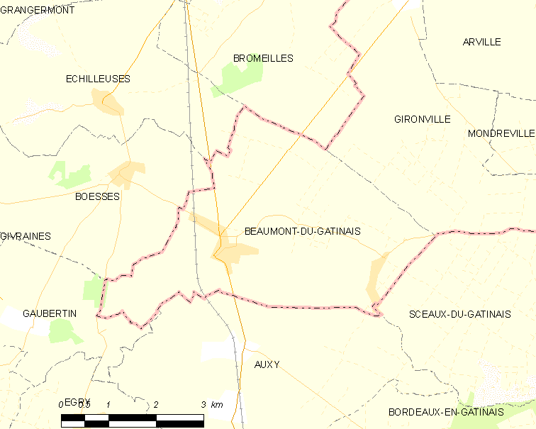 Map of French municipality Beaumont-du-Gâtinais